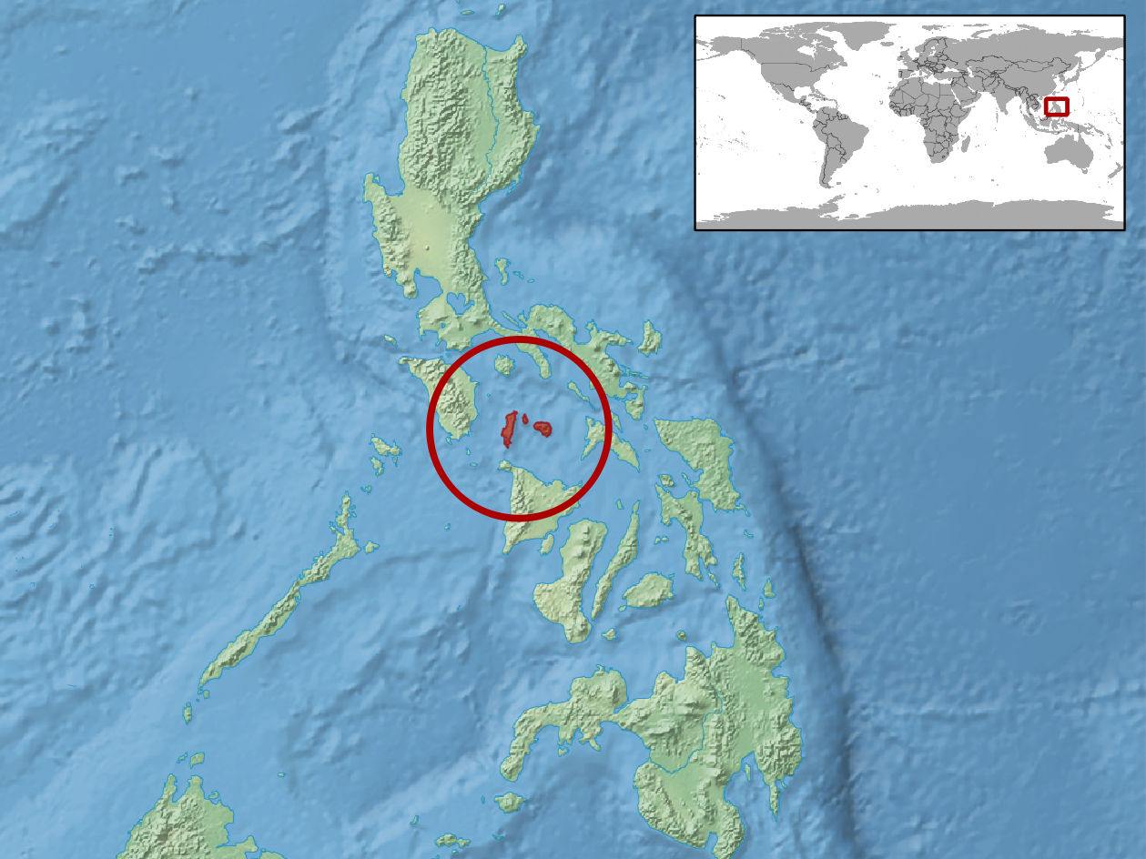 geographic distribution of Gekko romblon (Native: Philippines)